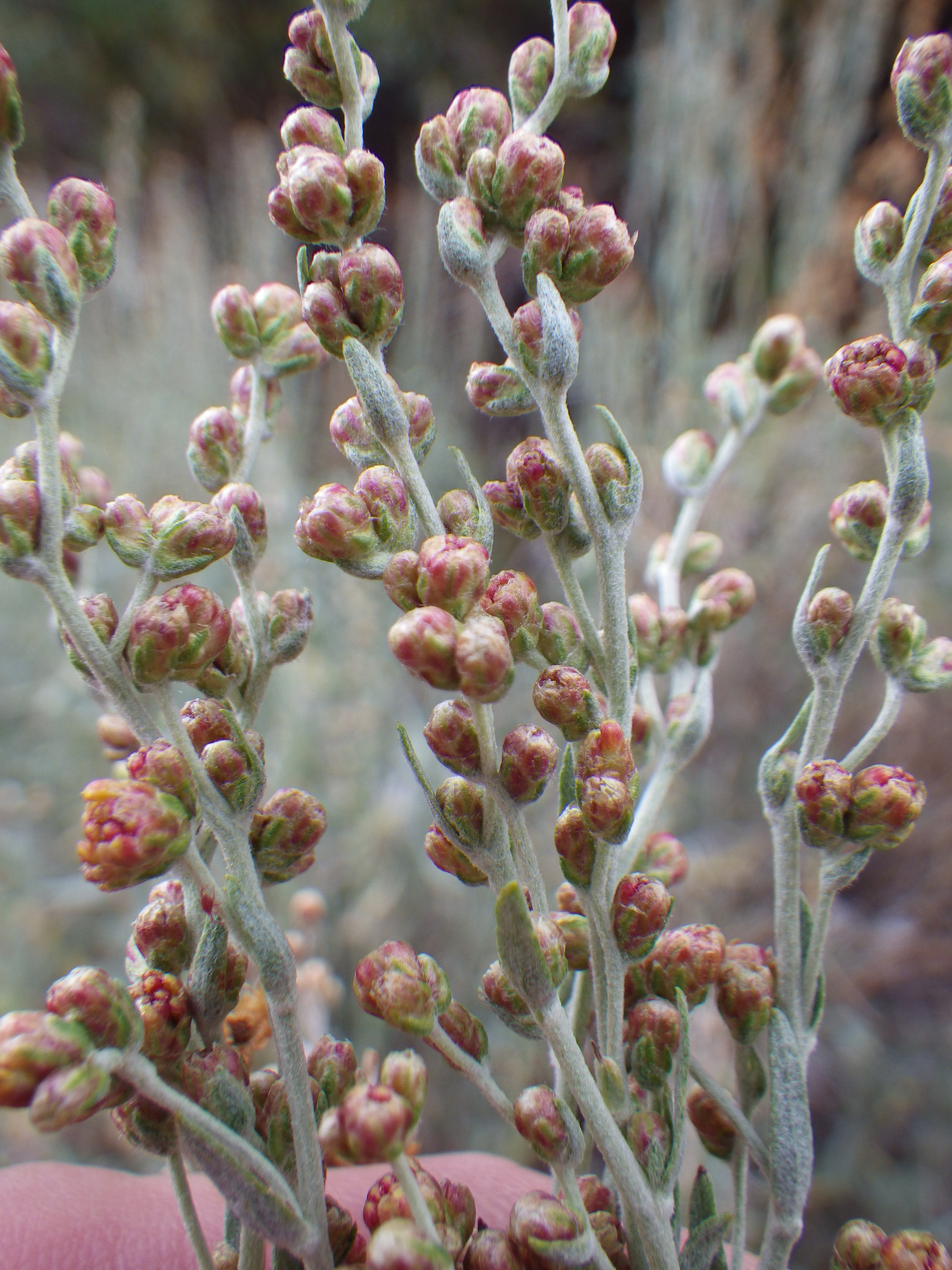 Artemisia tridentata ssp. spiciformis is very similar to A. rothrockii and differs in its larger stature, inflorescences distinctly ascending above a flattish canopy, and the dense gray-green leaf vestiture. This variety differs from other Artemisia tridentata in having larger more well-spaced flowering heads, spindly stems, and main stem leaves that turn yellow by mid to late summer (because this is supposedly a deciduous species of shrubby Artemisia).